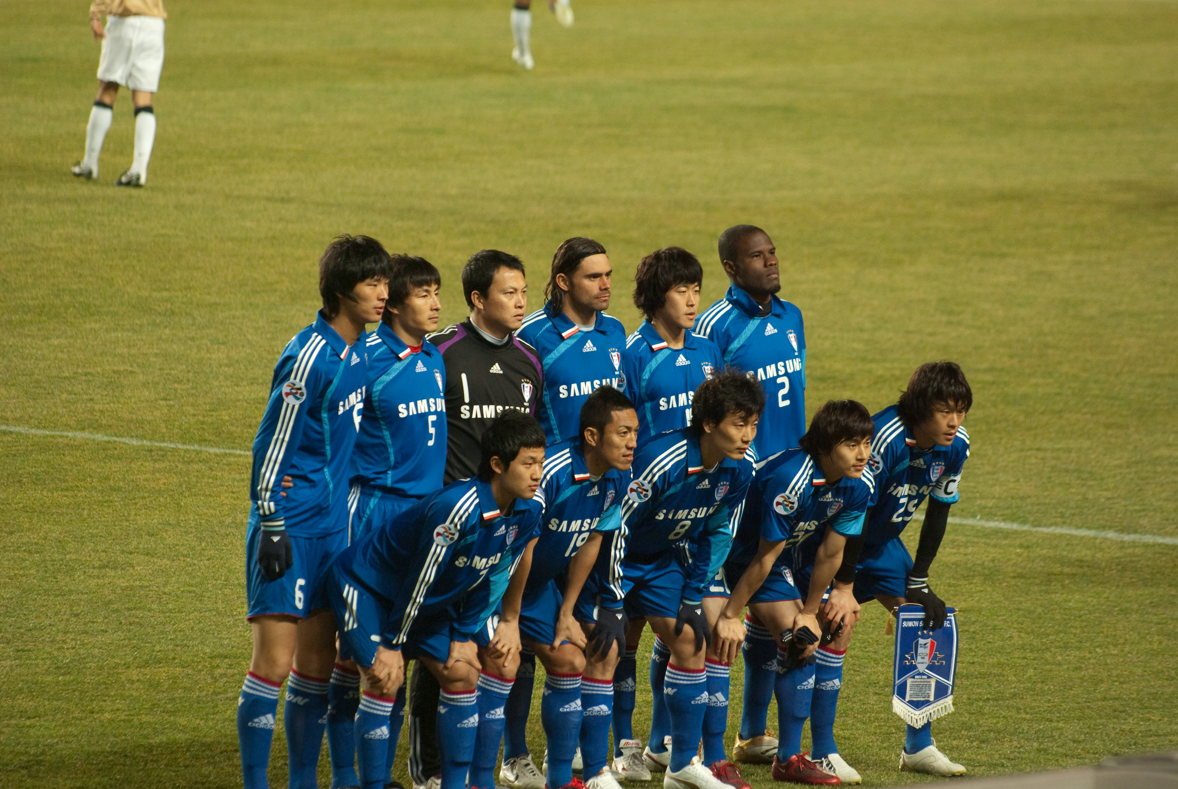 AFC Champions League 2009 Squad of Suwon Samsung Bluewings at 11 Mar 2009 against Kashima Antlers of J-League.Squad (AFC official website)